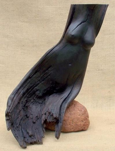 words of centuries,, bogoak sculpture Author Mieczyslaw Wojtkowski